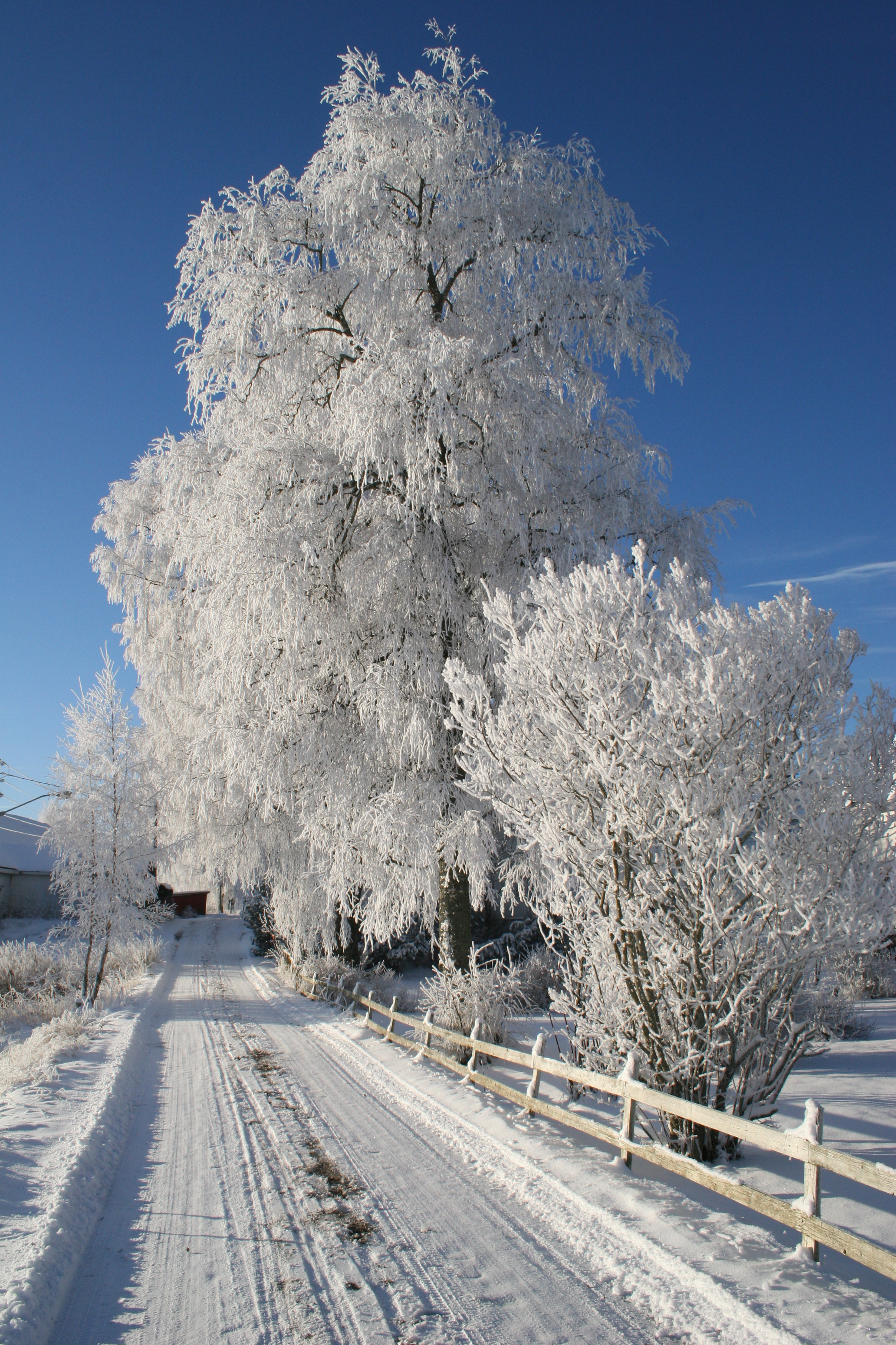 Winter in Norway (Bøn, Eidsvoll, Norway)